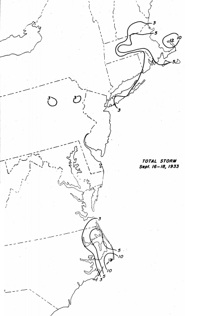 Map of the eastern United States showing the precipitation associated with a hurricane that passed near the Outer Banks and New England in September 1933